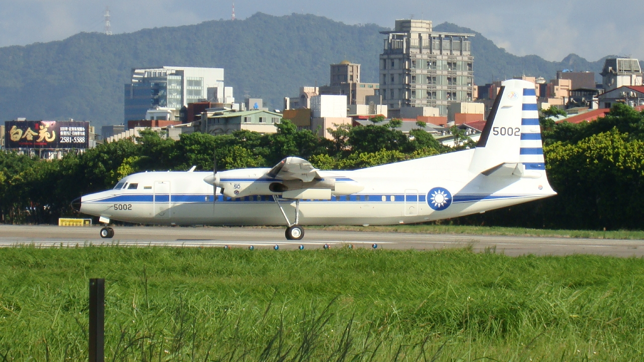 ROC AIRFORCE FOKKER 50 VIP PLANE.